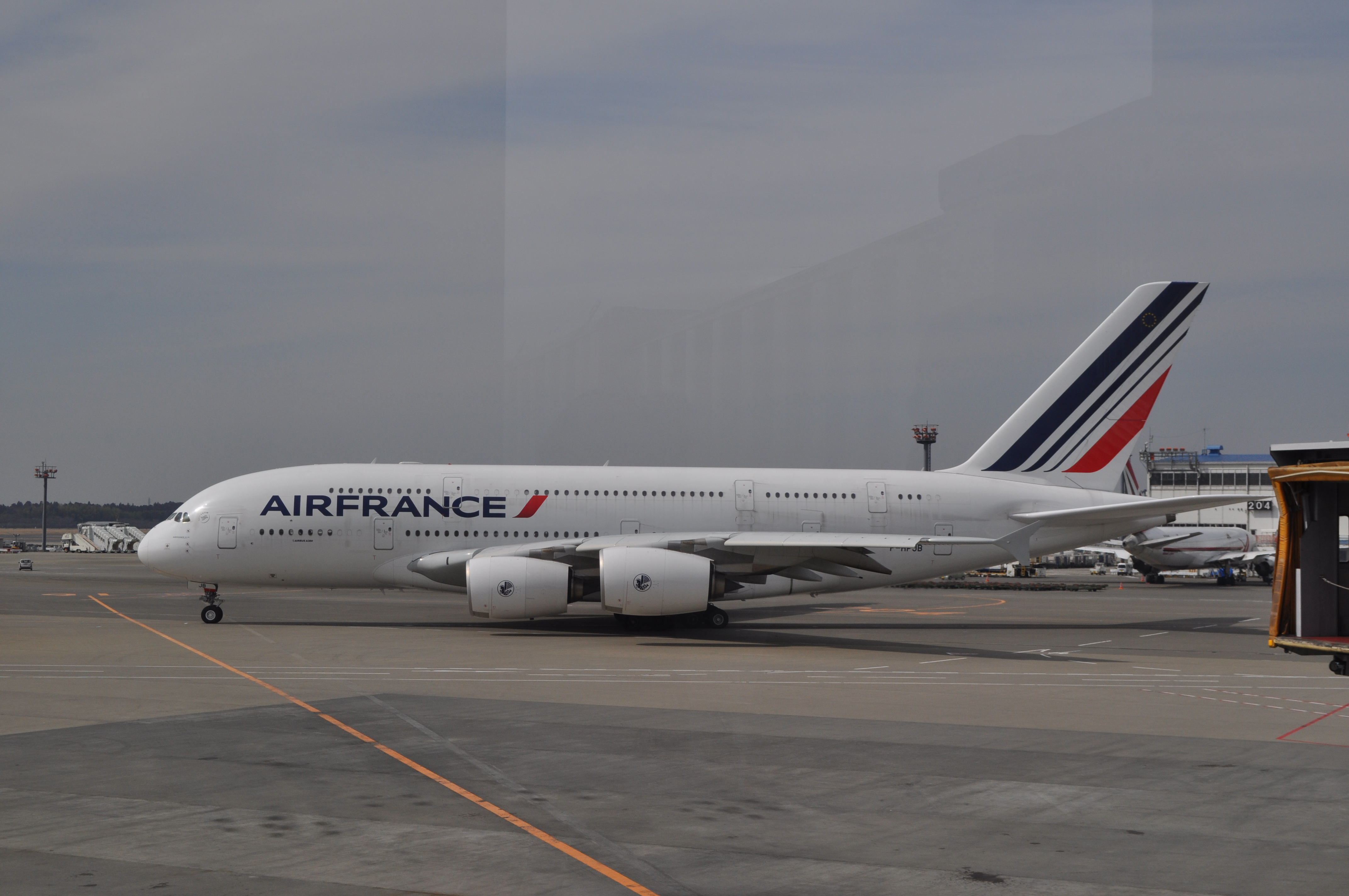 A380 in the Narita Airport, Tokyo.